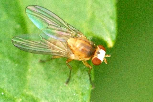 Sapromyza albiceps from Commanster, Belgian High Ardennes .